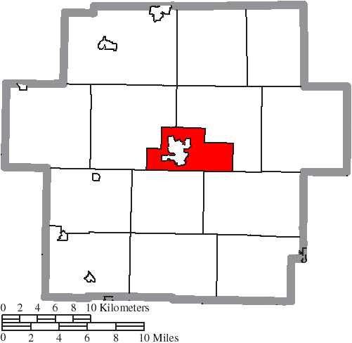 Map of the municipal and township boundaries of Carroll County, Ohio, United States, as of the 2000 census, with the location of Center Township highlighted. Township borders are shown only in unincorporated areas in order to differentiate incorporated and unincorporated areas more clearly.